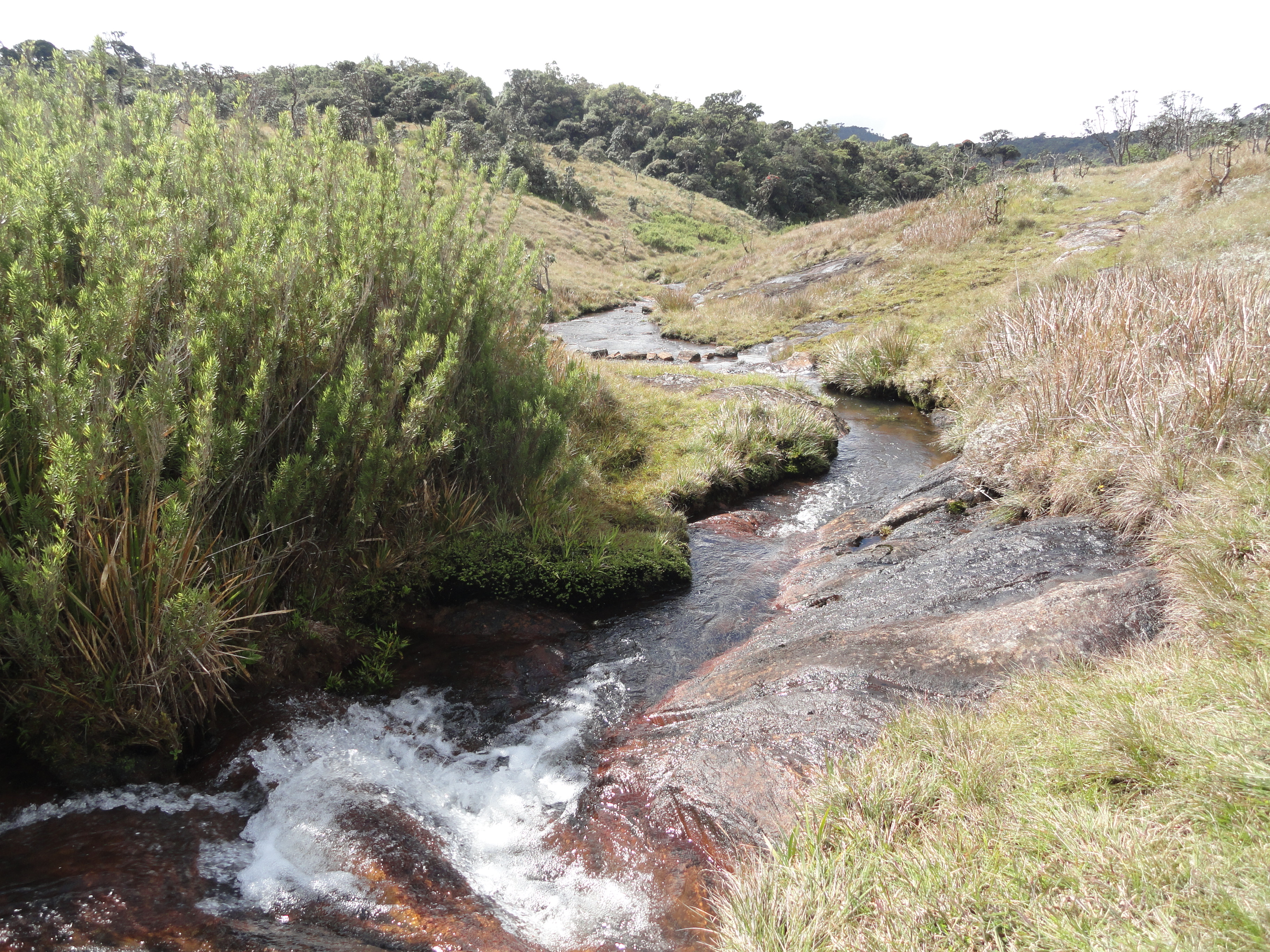 The upper regions of Belihul Oya, a major tributary of the Walawe River. Horton Plains National Park, Sri Lanka.